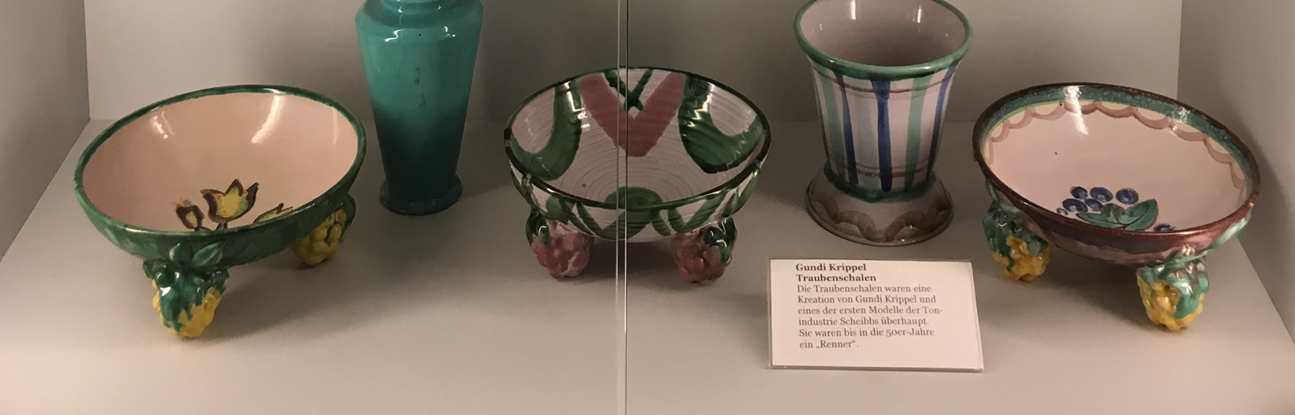 Gundi Krippel Obstschalen